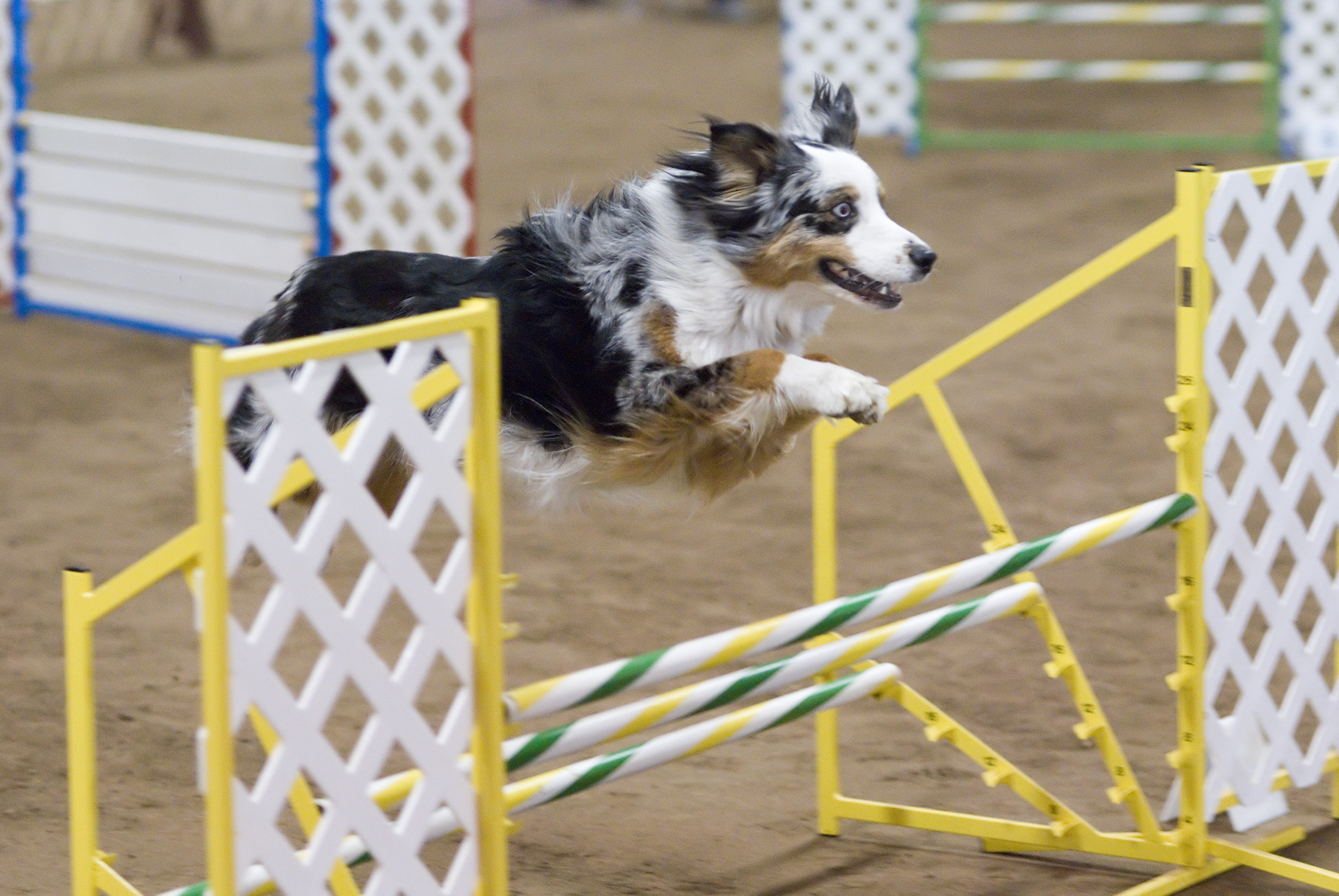 A blue merle Australian Shepherd in an agility competition.